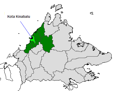 Created using Aquarius OMC, drawn using MS Paint.